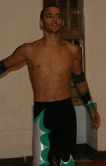 Ricochet at the 2008 Ted Petty Invitational